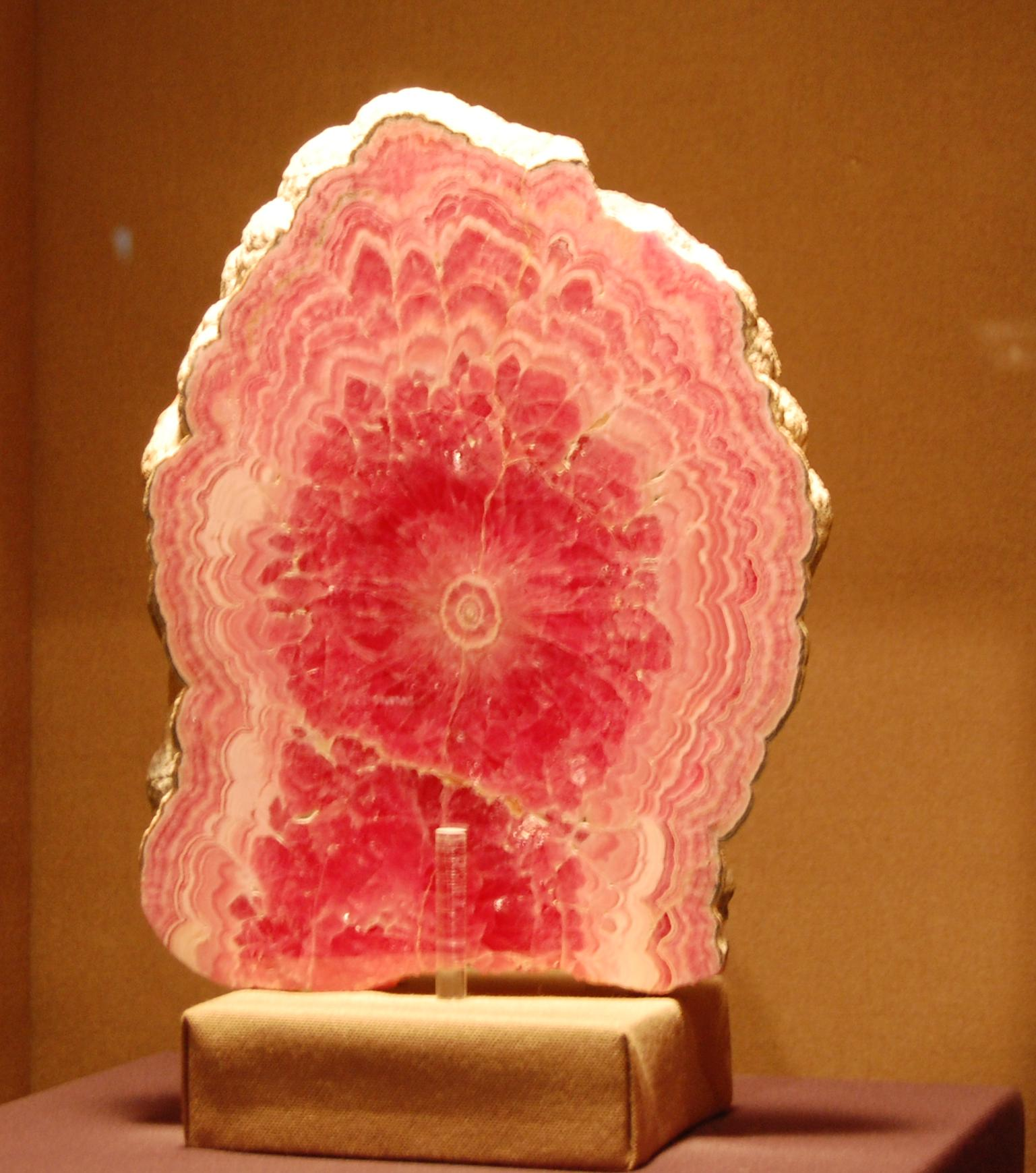 A Rhodochrosite in La Plata Museum, Argentina.